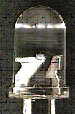 Photo diode